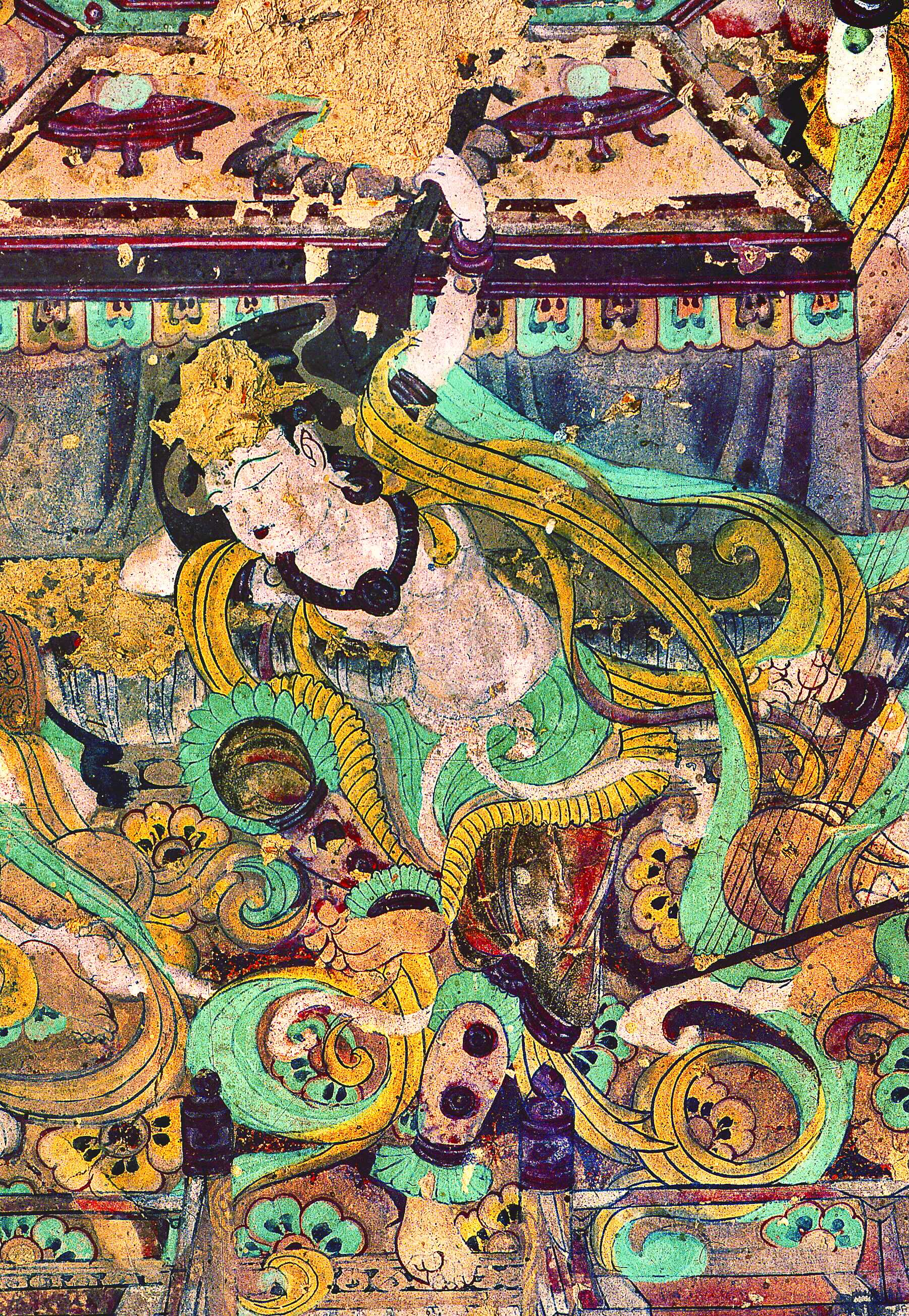 A mural from Dunhuang Mogao caves, showing a musician playing the pipa behind her back.